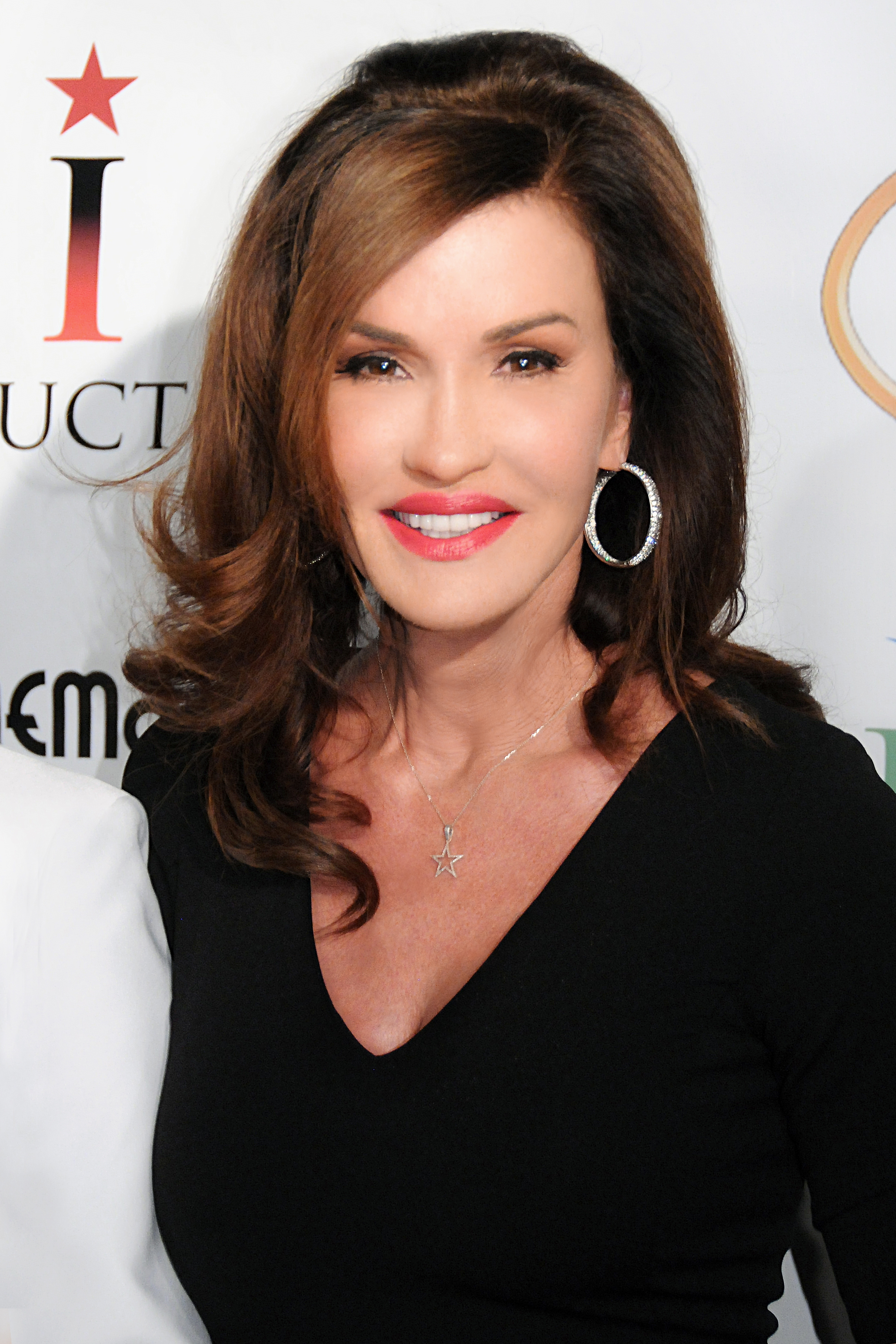 Janice Dickinson attending Luisa Diaz's Havana White Party at Berri's Café in Los Angeles, California on August 27, 2014 - Photo by Glenn Francis of